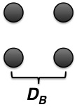 Four-conductor bundle with equal spacing